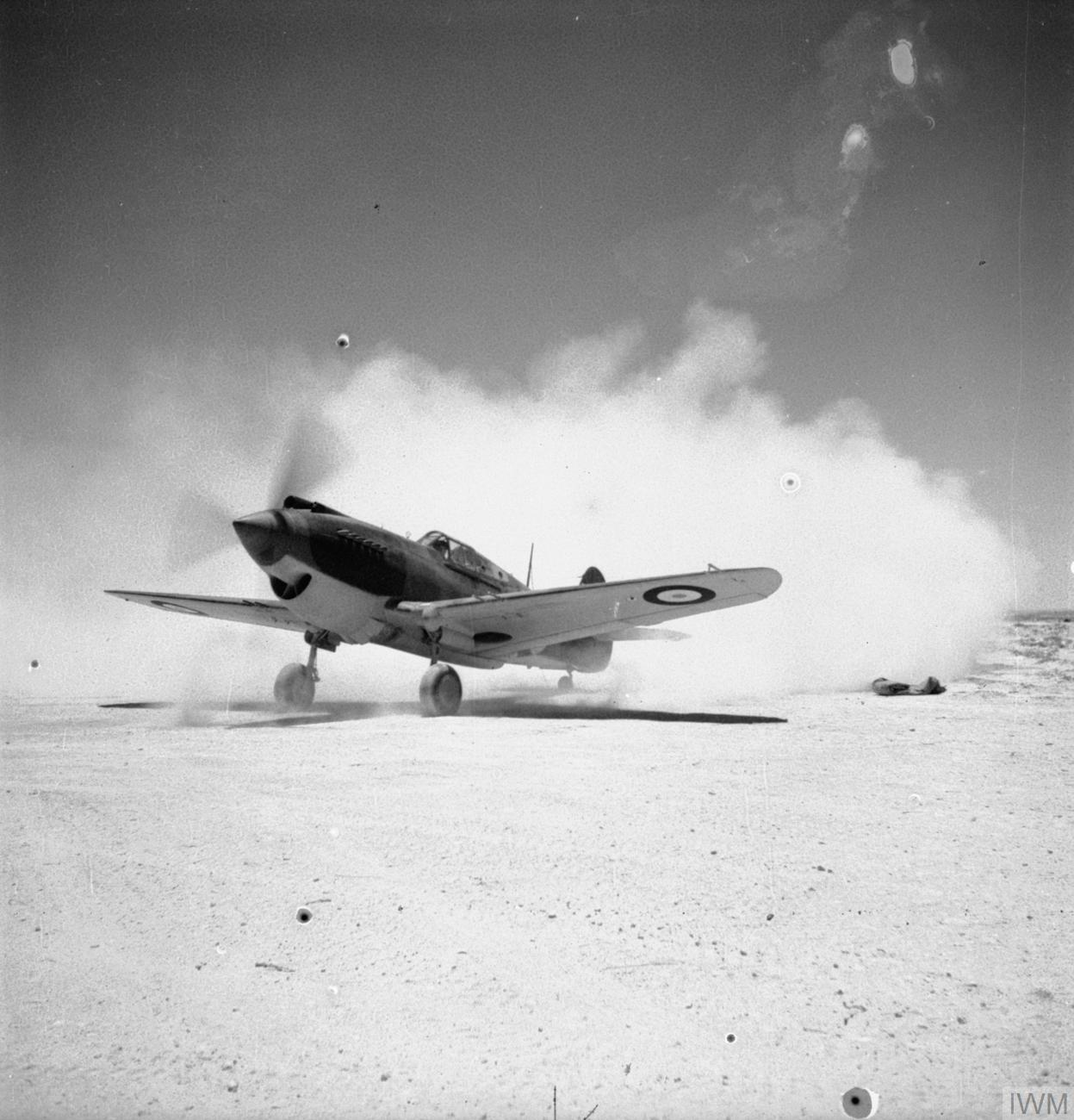 Royal Air Force Operations in the Middle East and North Africa, 1939-1943. A Curtiss Tomahawk Mark IIB of No. 250 Squadron RAF raises the dust at LG 13/Sidi Heneish South, before taking off on a patrol.